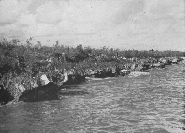 Coral reef edge of the coast Tinians.